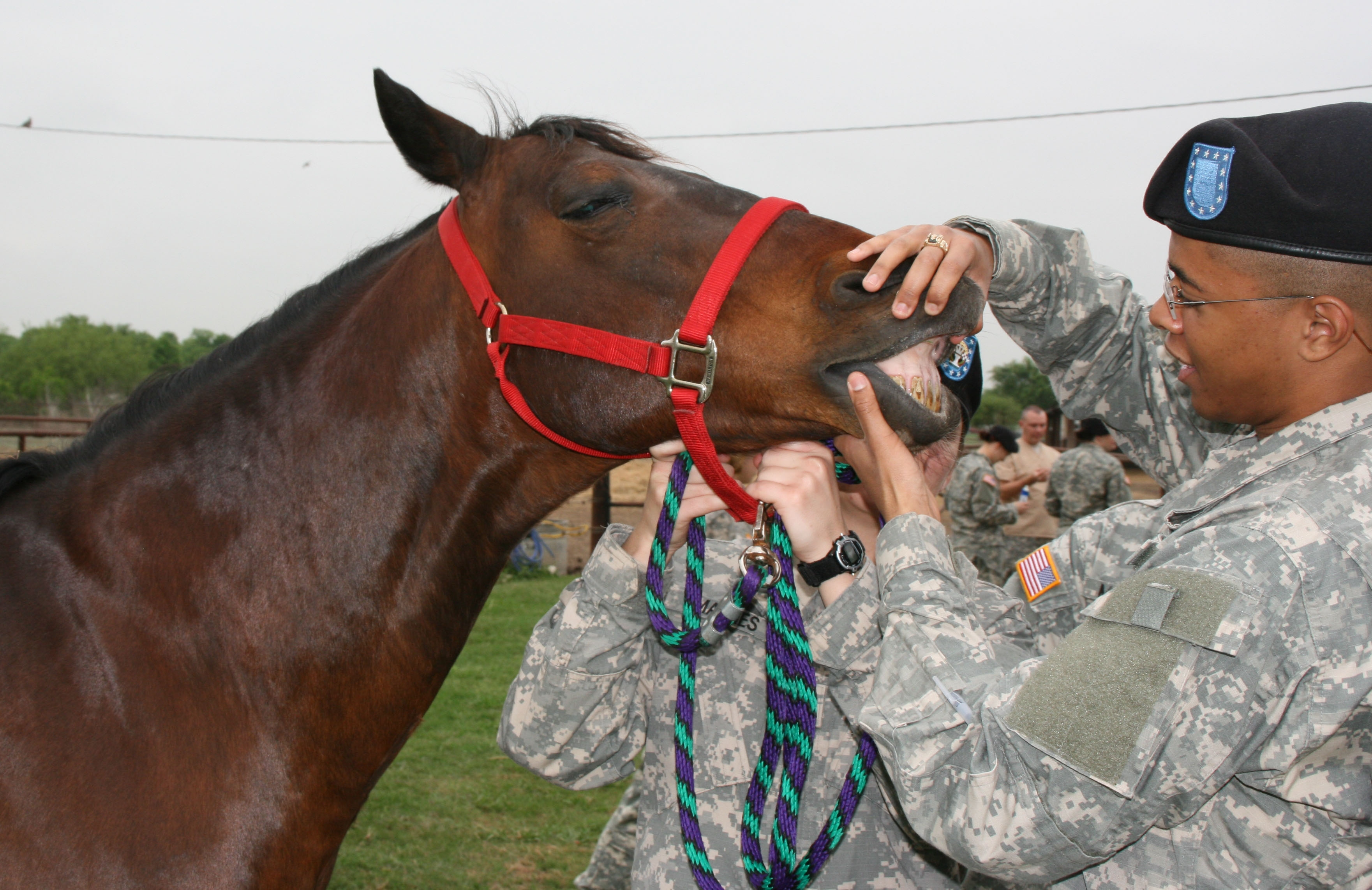 Army Trains Pfc. Jared Donnell looks into a horse's mouth to check the condition of its teeth while performing a physical